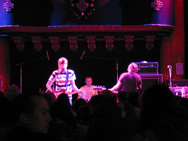 [ Brighten], from Chico, California. One thing that struck me about this club is how efficient it was. Most bands only played a 30 minute set, and most bands shared equipment.